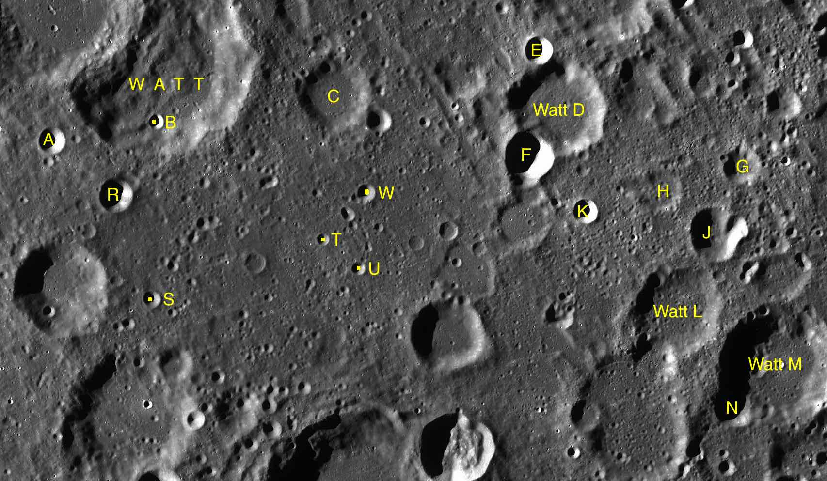 Part of the chart LAC-128 used for the presentation